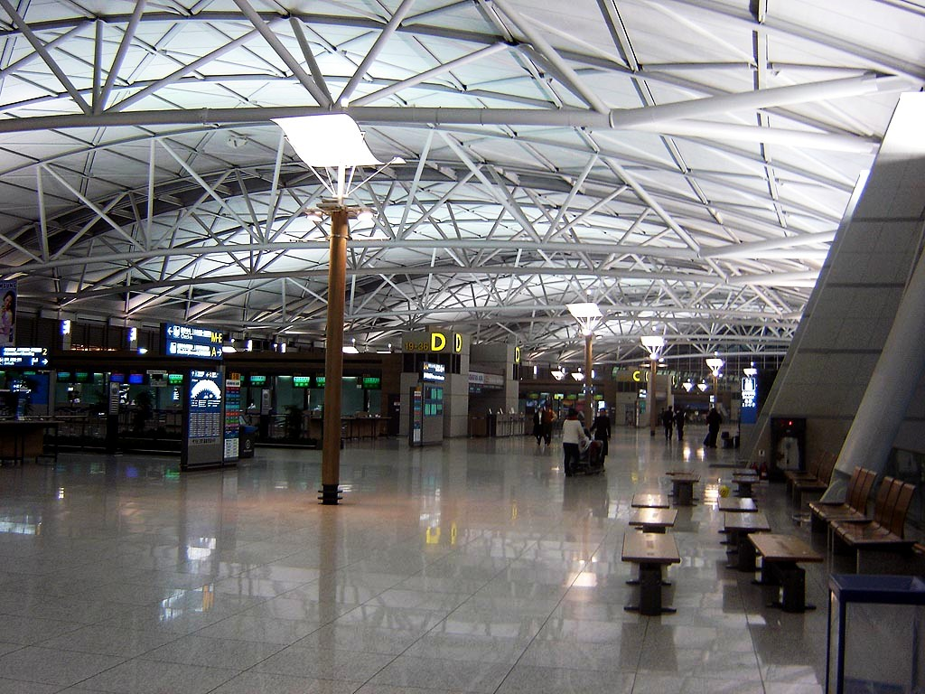 Departures at Incheon Airport